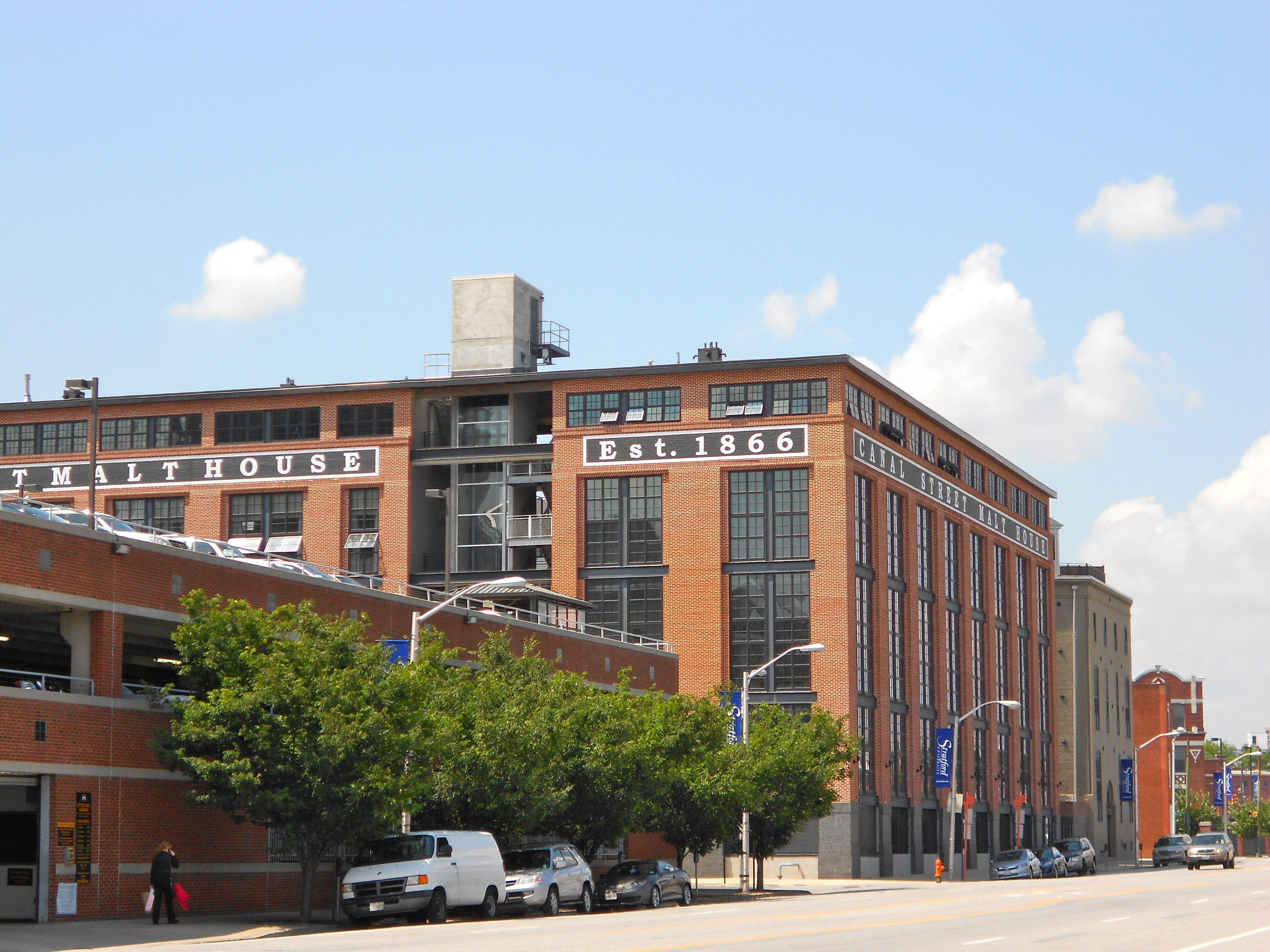 Building in the Central Avenue Historic District in Baltimore. Listed on the NRHP